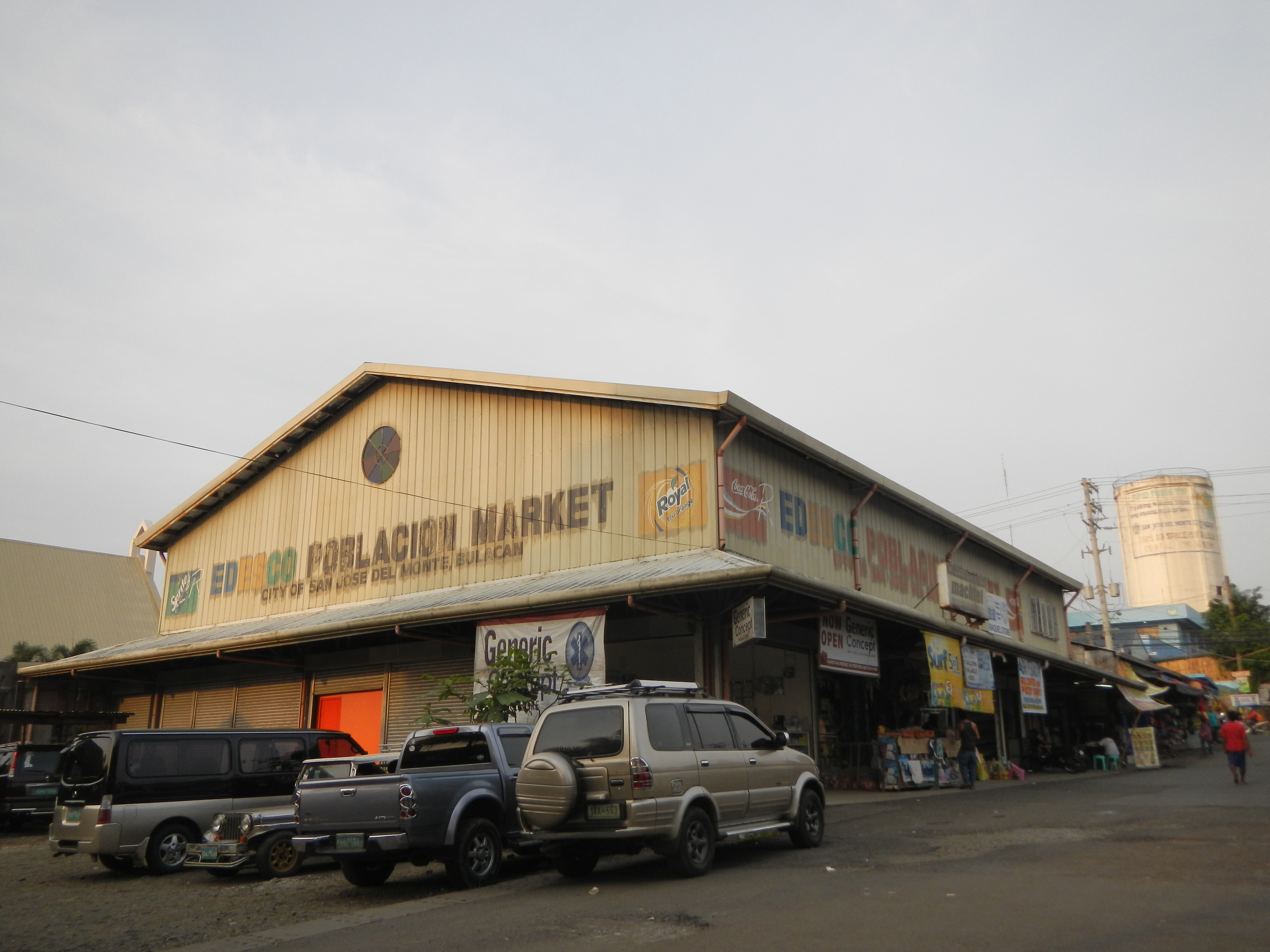 Edesco Poblacion Public Market City of San Jose del Monte (CSJDM)[1][2] [3]